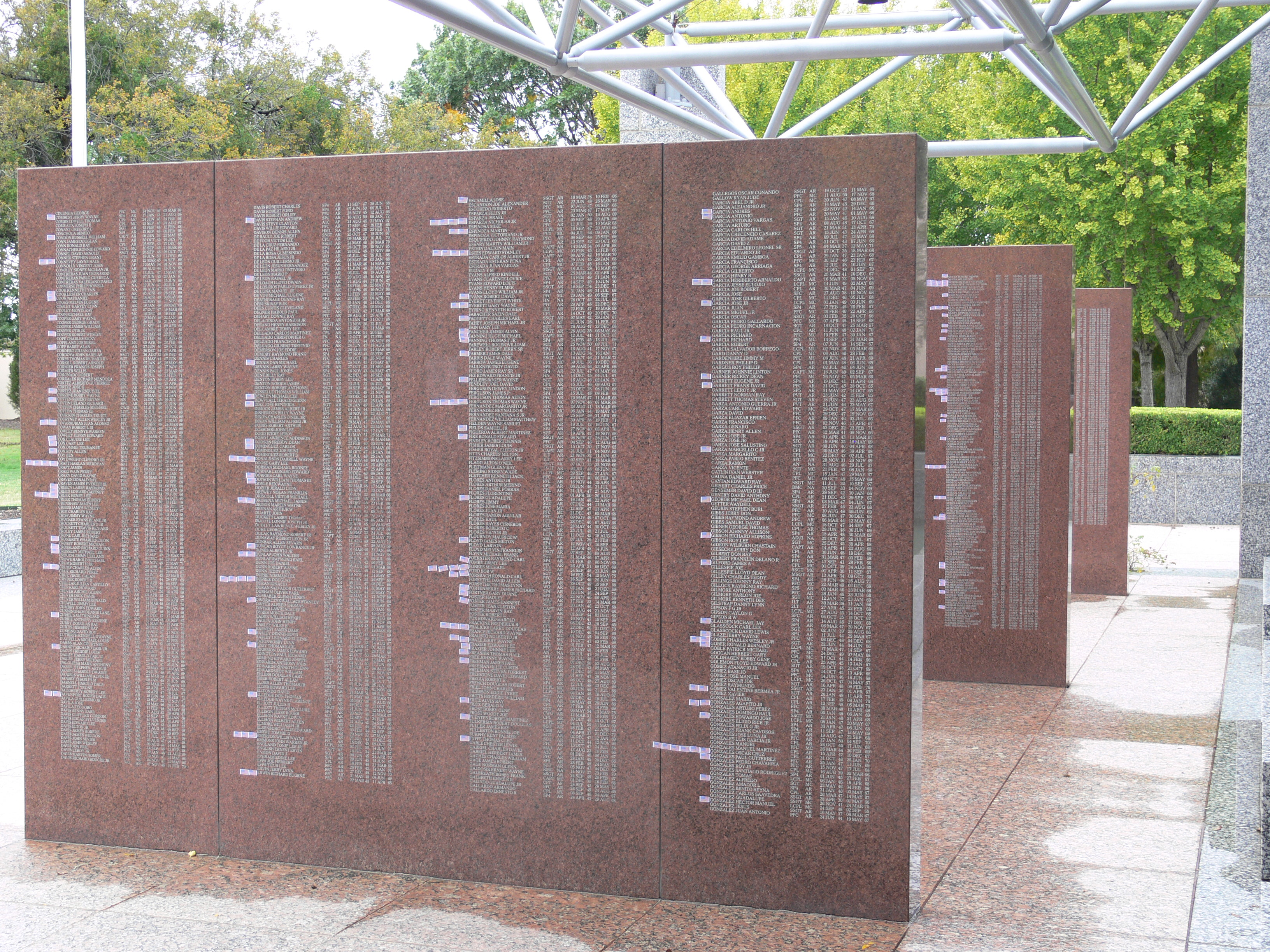 Texas Vietnam Veterans Memorial (Fair Park, Dallas, Texas)